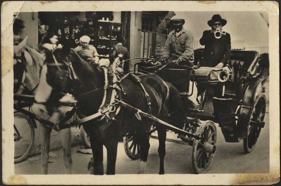 Tel Aviv, Cities in Israel